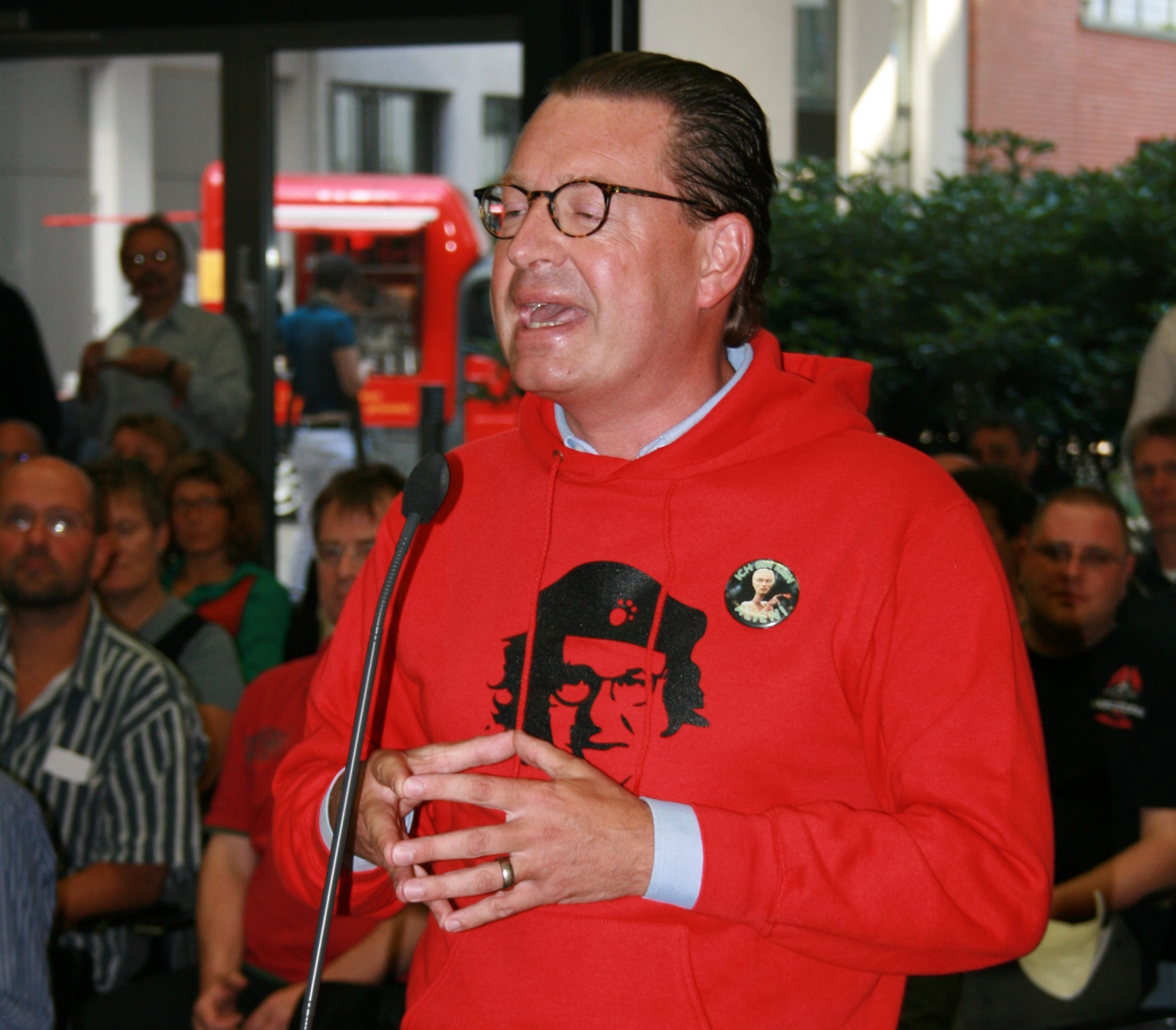 comrad Kai Diekmann, german journalist (at this date chief editor of “Bild” daily newspaper and member of “taz” cooperative) at general meeting ot the taz cooperative (helding capital of “taz”/german alternative newspaper). Discussion about yearly report from cooperative board and supervisory board; Berlin, house of “ver.di”-workers union.